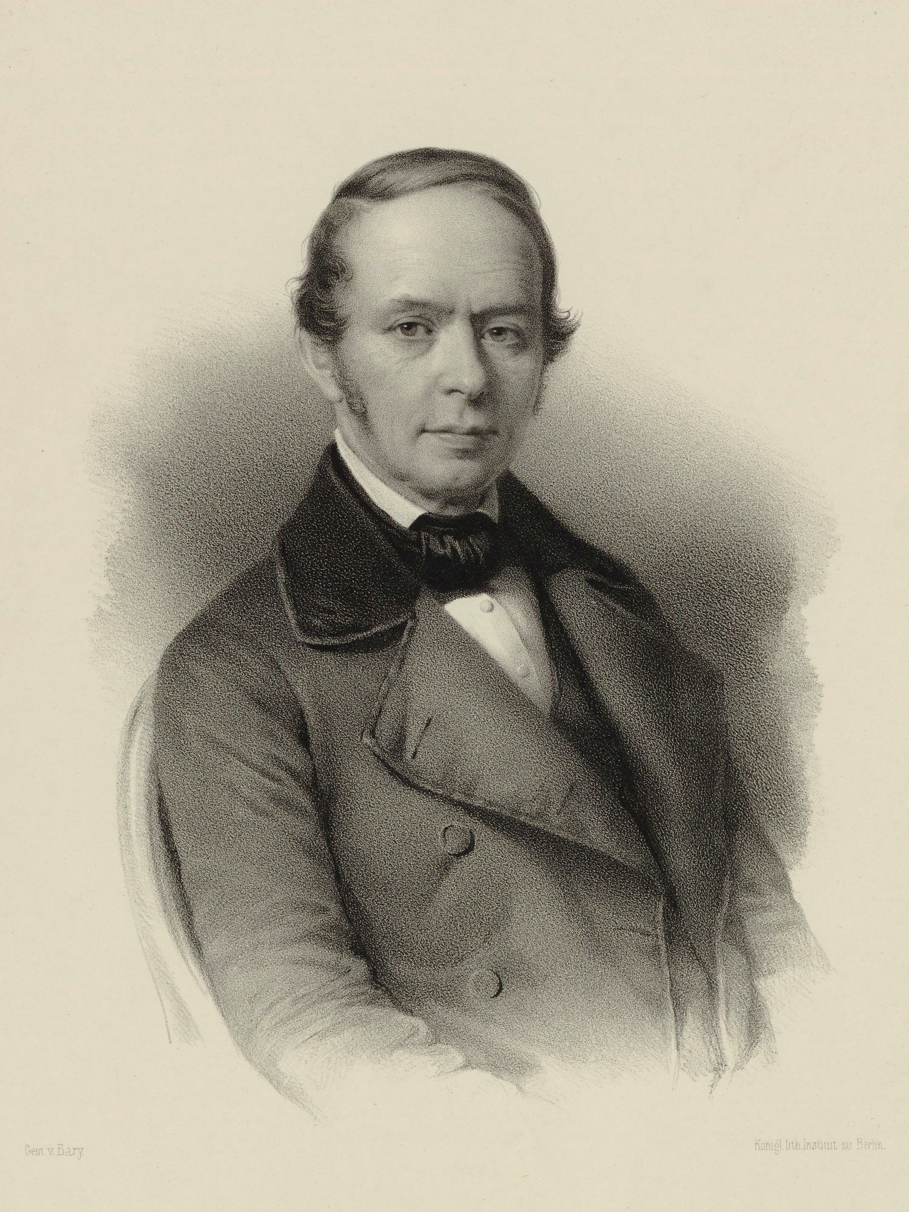 Depicted person: Moritz Hauptmann